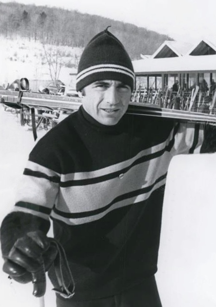 1969 Press Photo Jimmy Heuga demonstrates skiing techniques on a slope